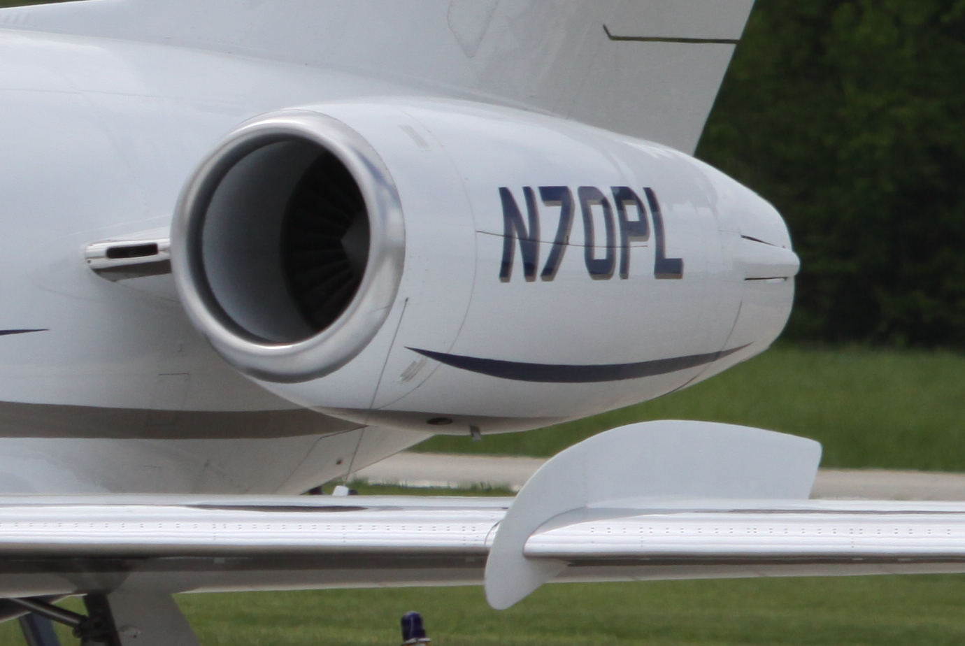 At Frankfort Capital City Airport